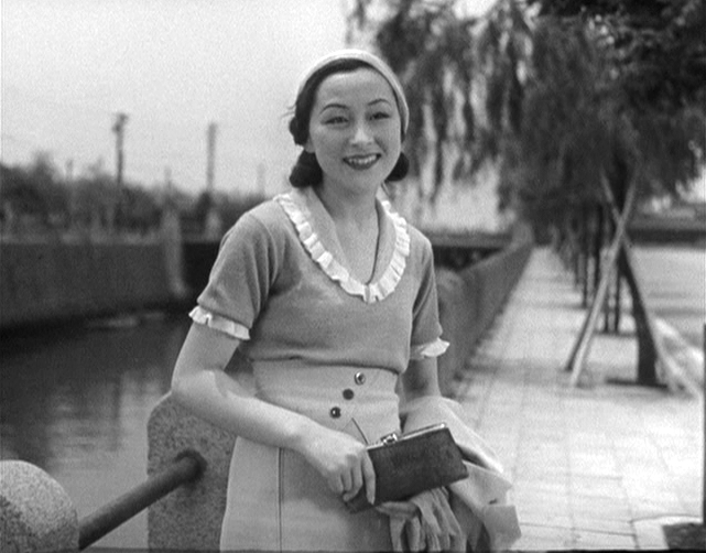 Screenshot of Yumeko Aizome in the 1933 movie Japanese Girls at the Harbor